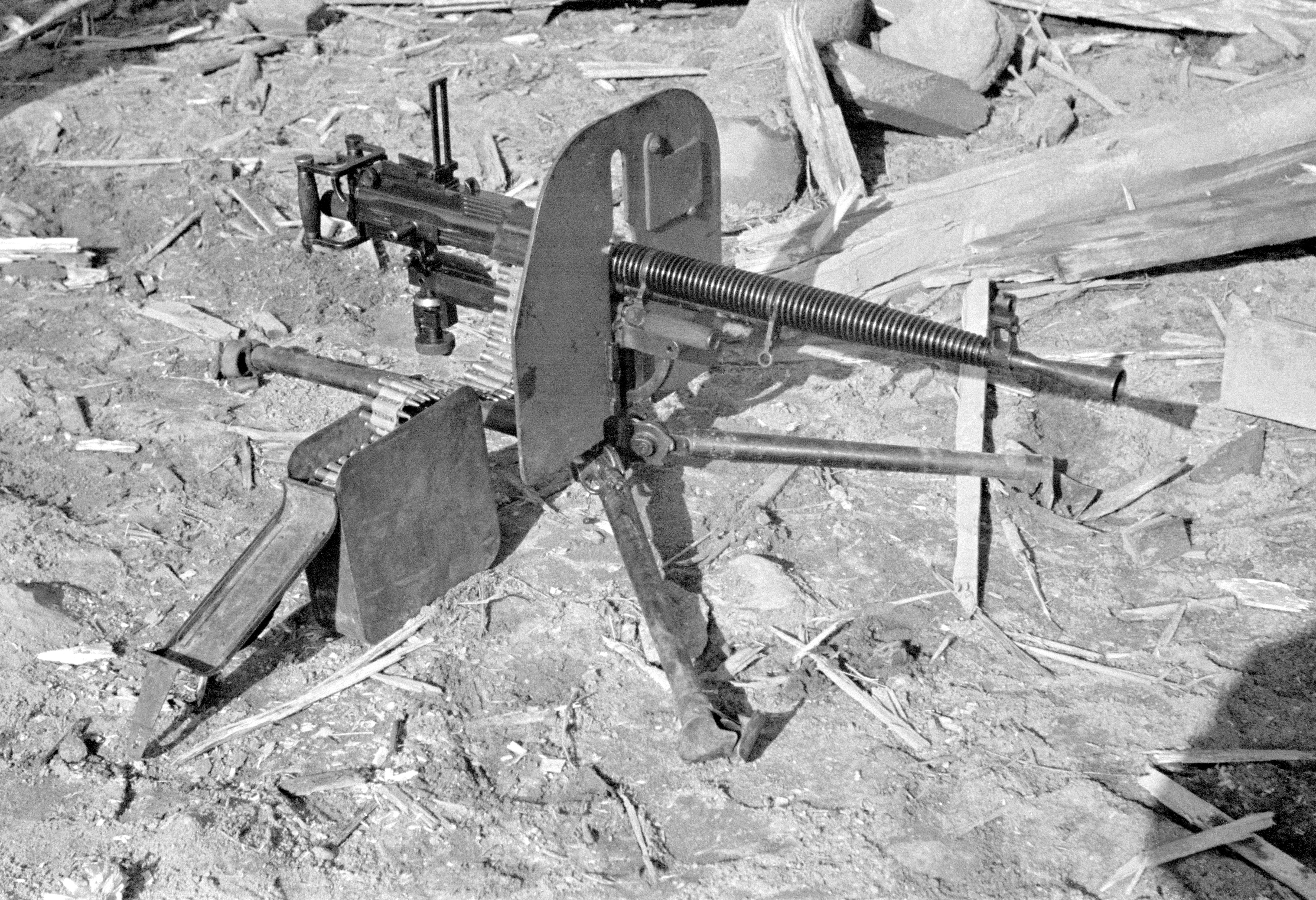 Soviet DS-39 machine gun captured by Finland.